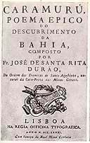 Book cover of the first edition of Caramuru